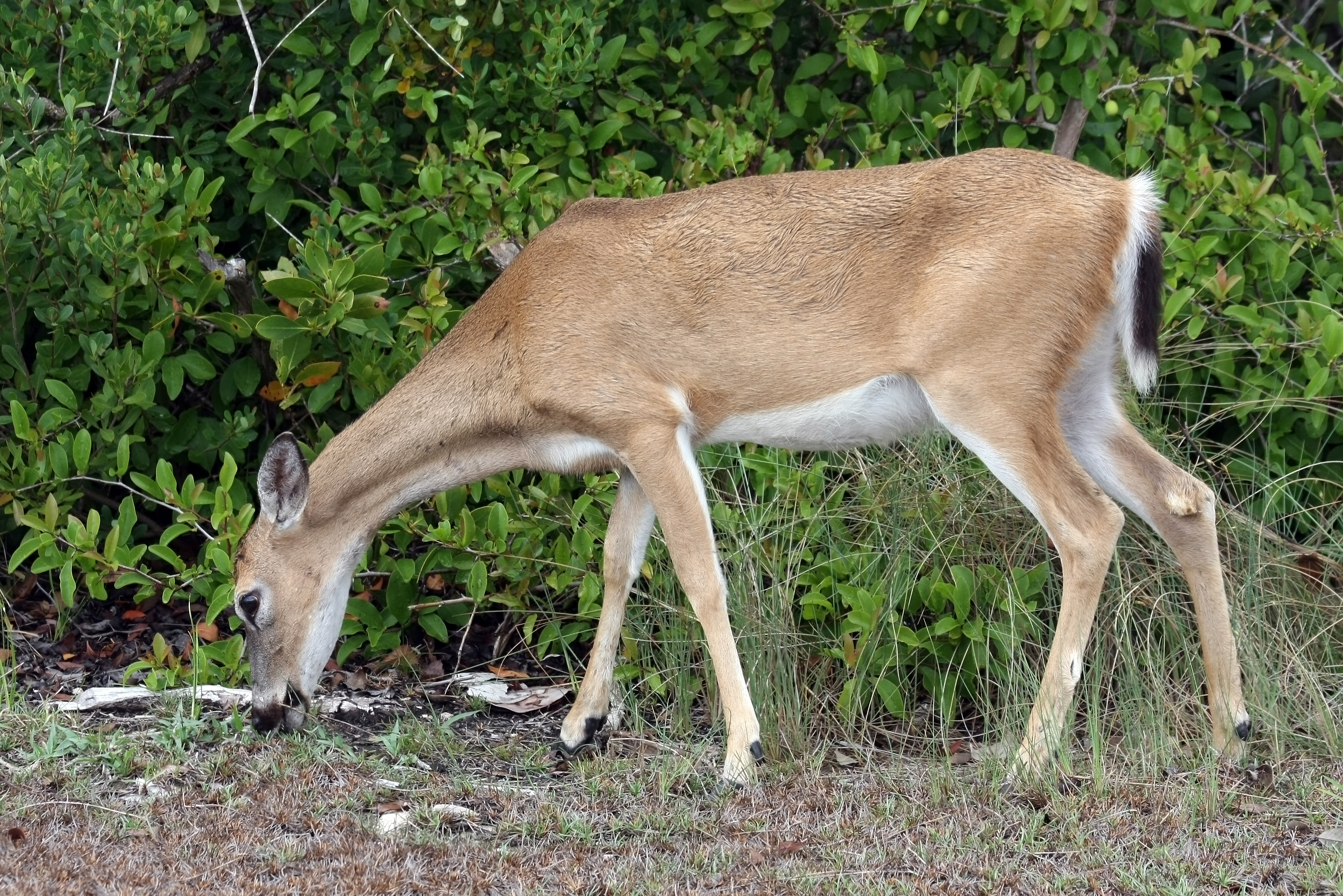 A female Key deer grazing. This species is only found on some of the Florida Keys.